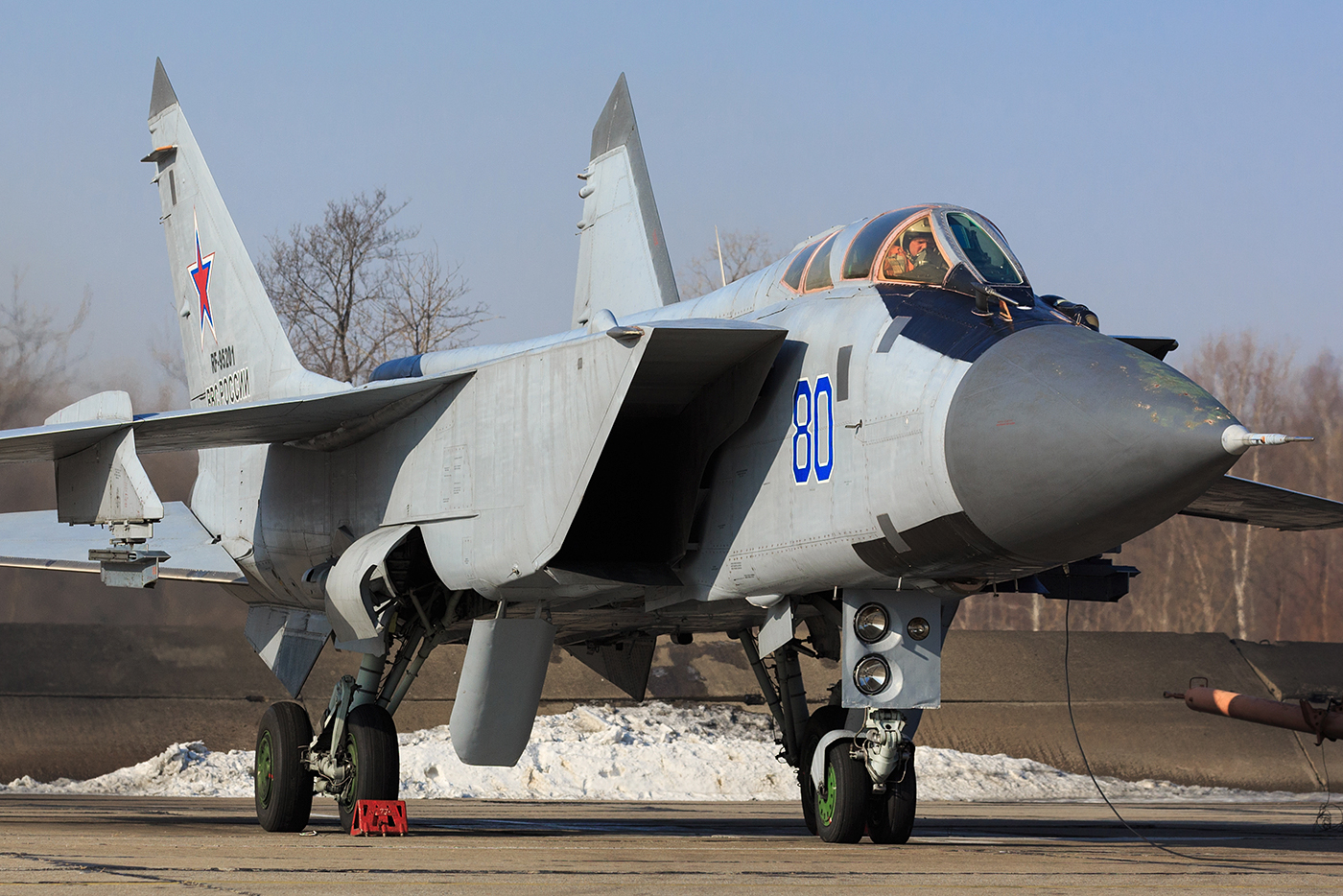 Mikoyan-Gurevich MiG-31 "80 Blue" Russia Air Force (RF-95201)